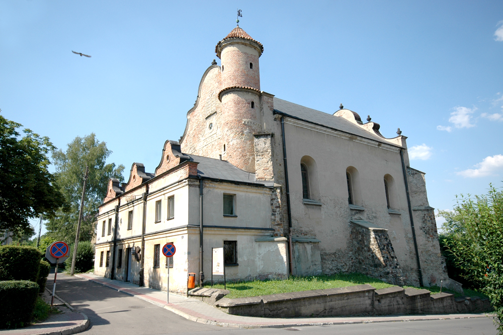 The sinagogue in Lesko, Subcarpathian voivodeship in south-eastern Poland